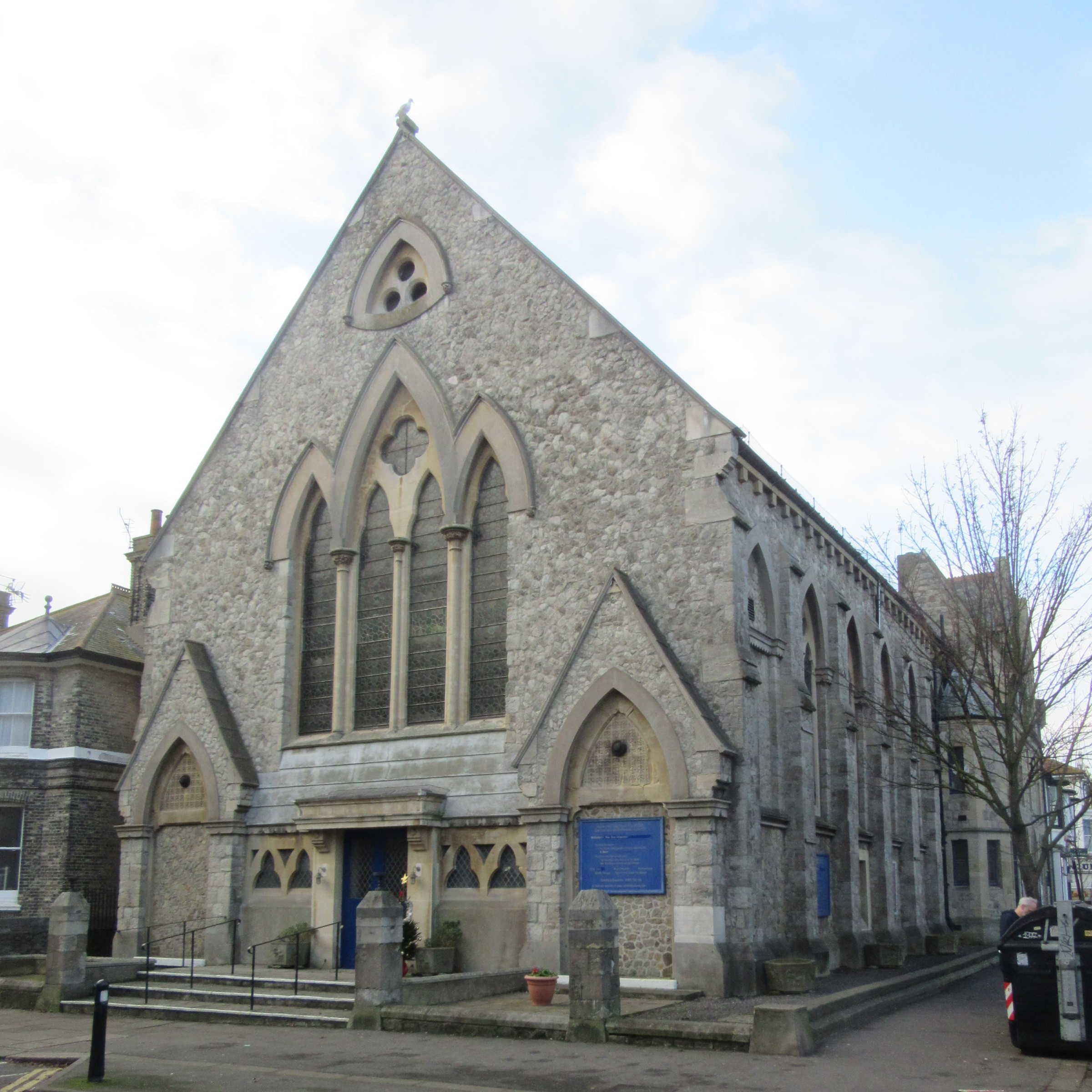 Central United Reformed Church, Blatchington Road, Hove, City of Brighton and Hove, England. On Brighton & Hove City Council's Local List of Heritage Assets.